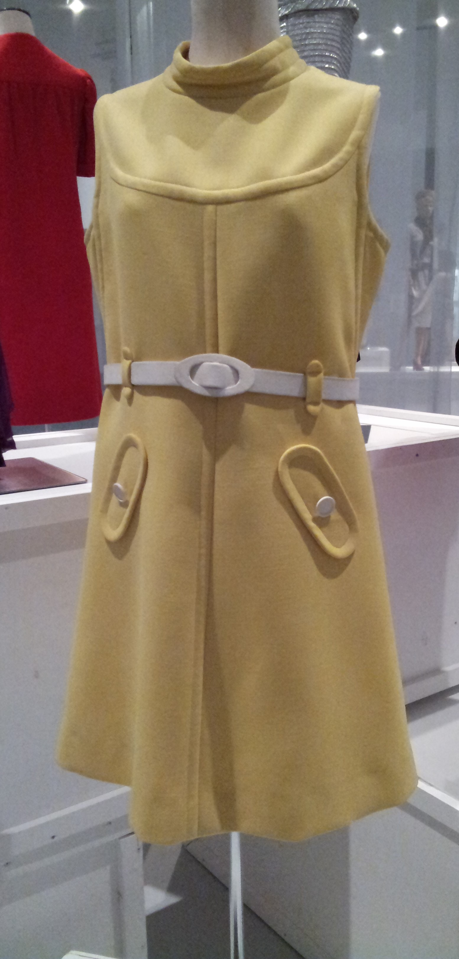 Lemon-yellow minidress by Andre Courrèges, 1967